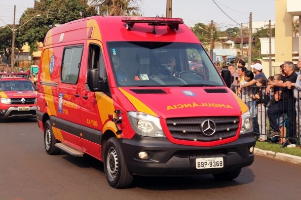 Ambulance. With "AMBULÂNCIA" in mirror writing ("AICNÂLUBMA")